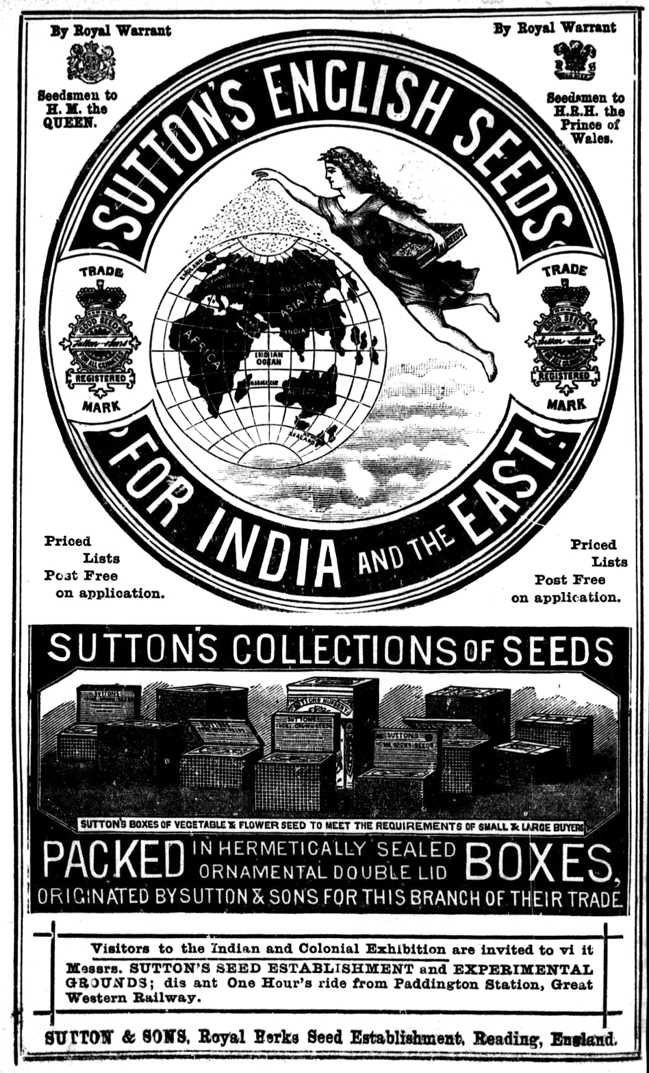 Advertisement from the catalogue of the Colonial and Indian Exhibition 1886